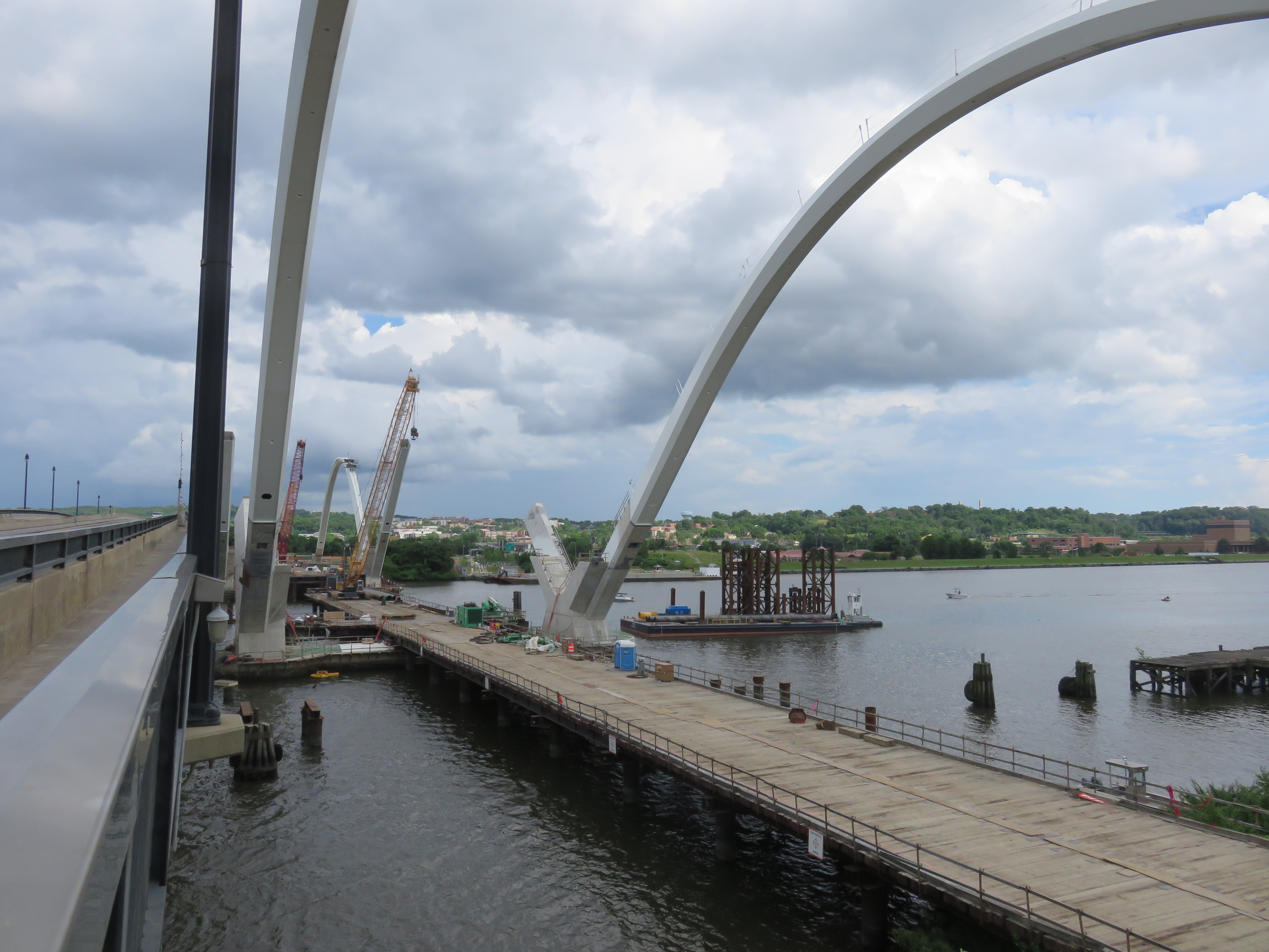 Construction of the new Frederick Douglass Memorial Bridge alongside the old bridge in Washington, D.C. in 2020